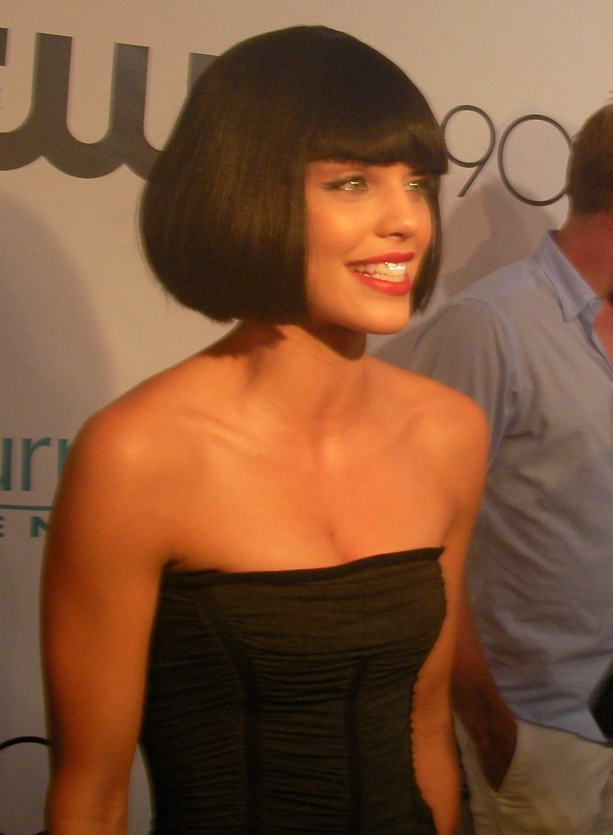 Premiere party for CW's "90210," Malibu, California - Aug. 23, 2008